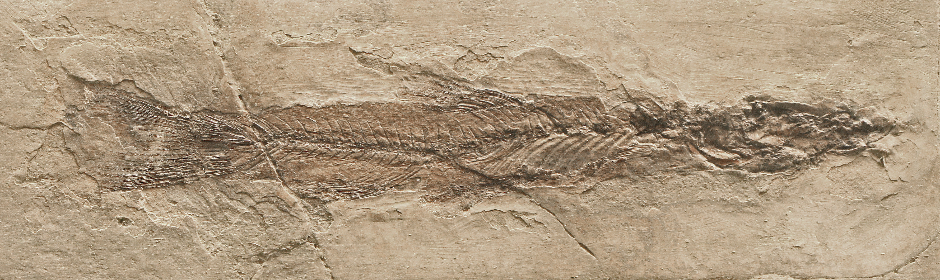 Miocene, Öhningen layers, Öhningen, Germany; Staatliches Museum für Naturkunde Karlsruhe, Germany.